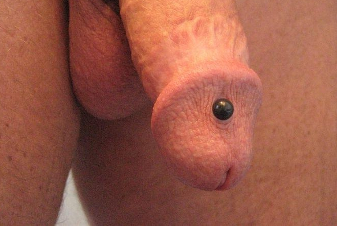 Reverse Prince Albert Piercing